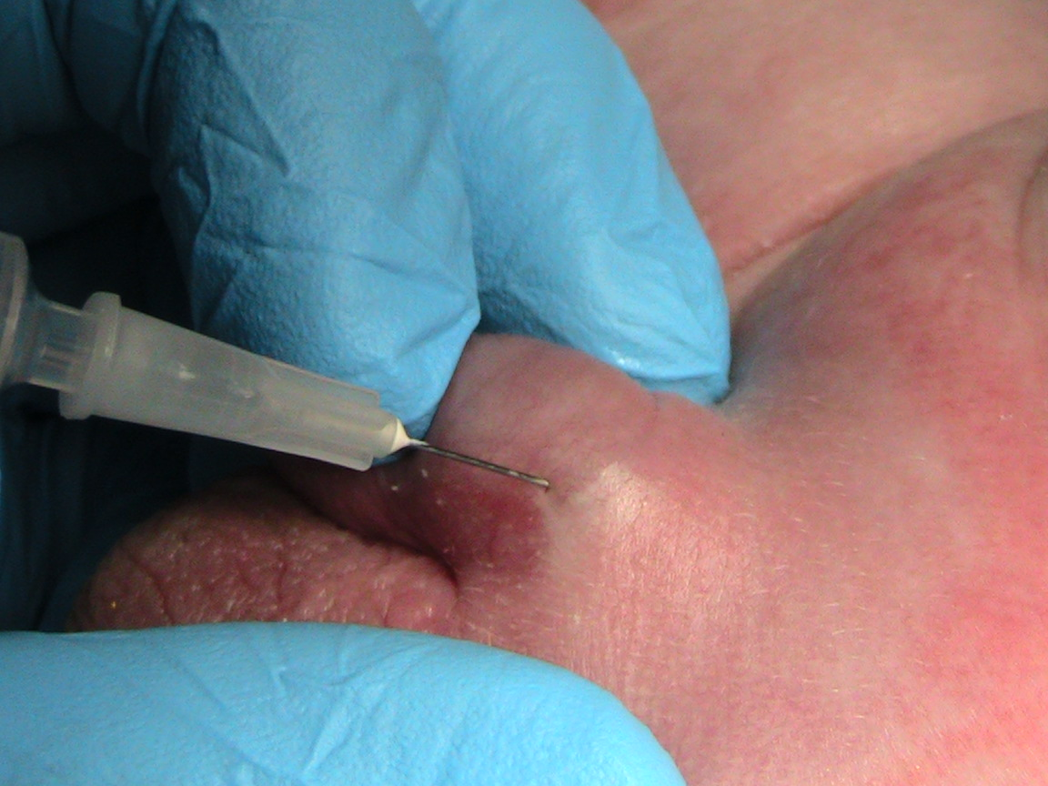 injection of lignocaine into dorsum of penis